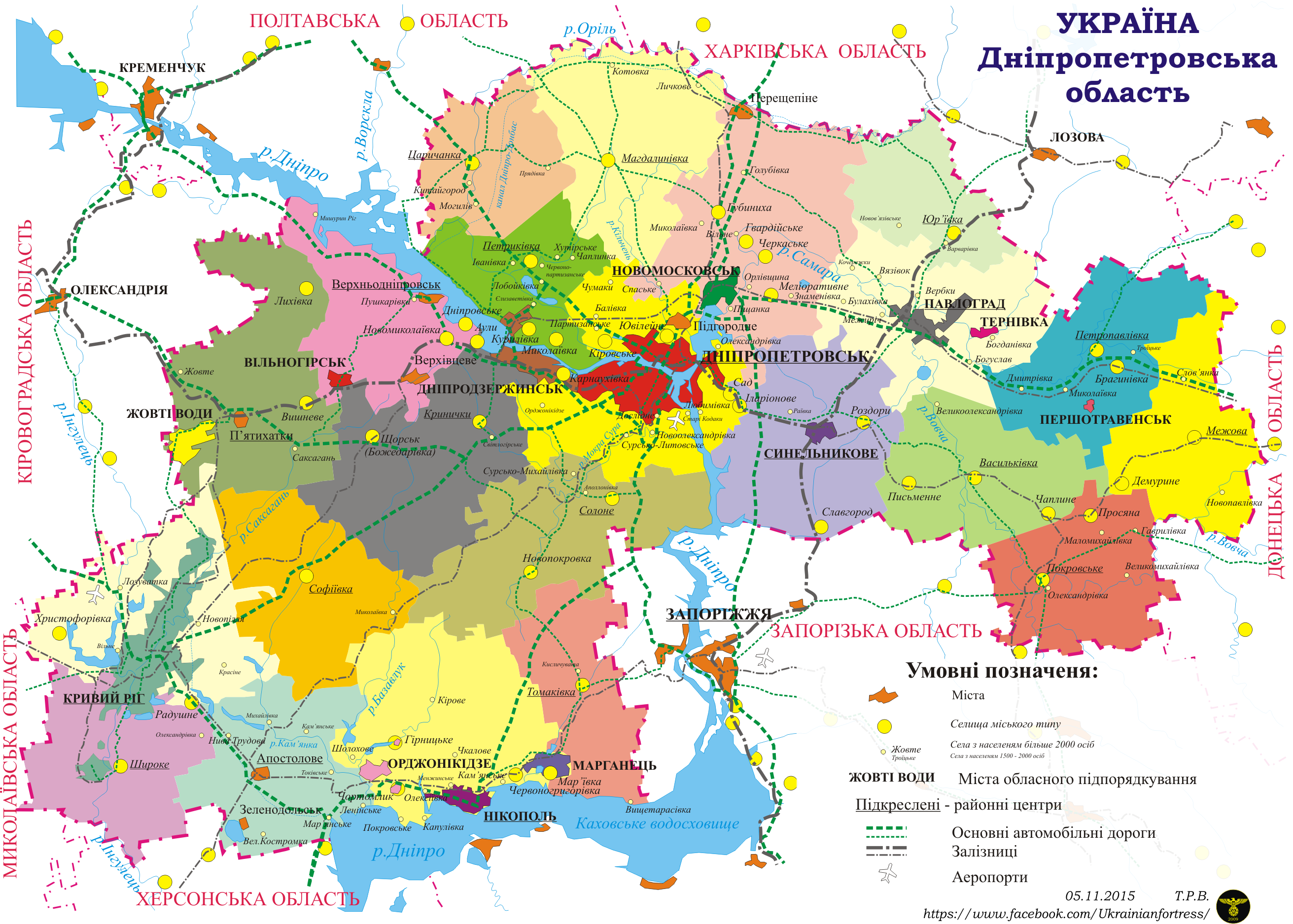 Dnipropetrovsk region. Administrative division